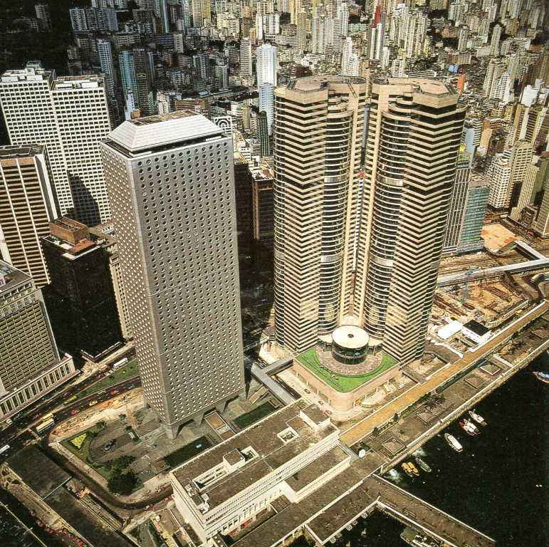 Jardine House, Central, Hong Kong 中文（香港）: 香港中環怡和大廈